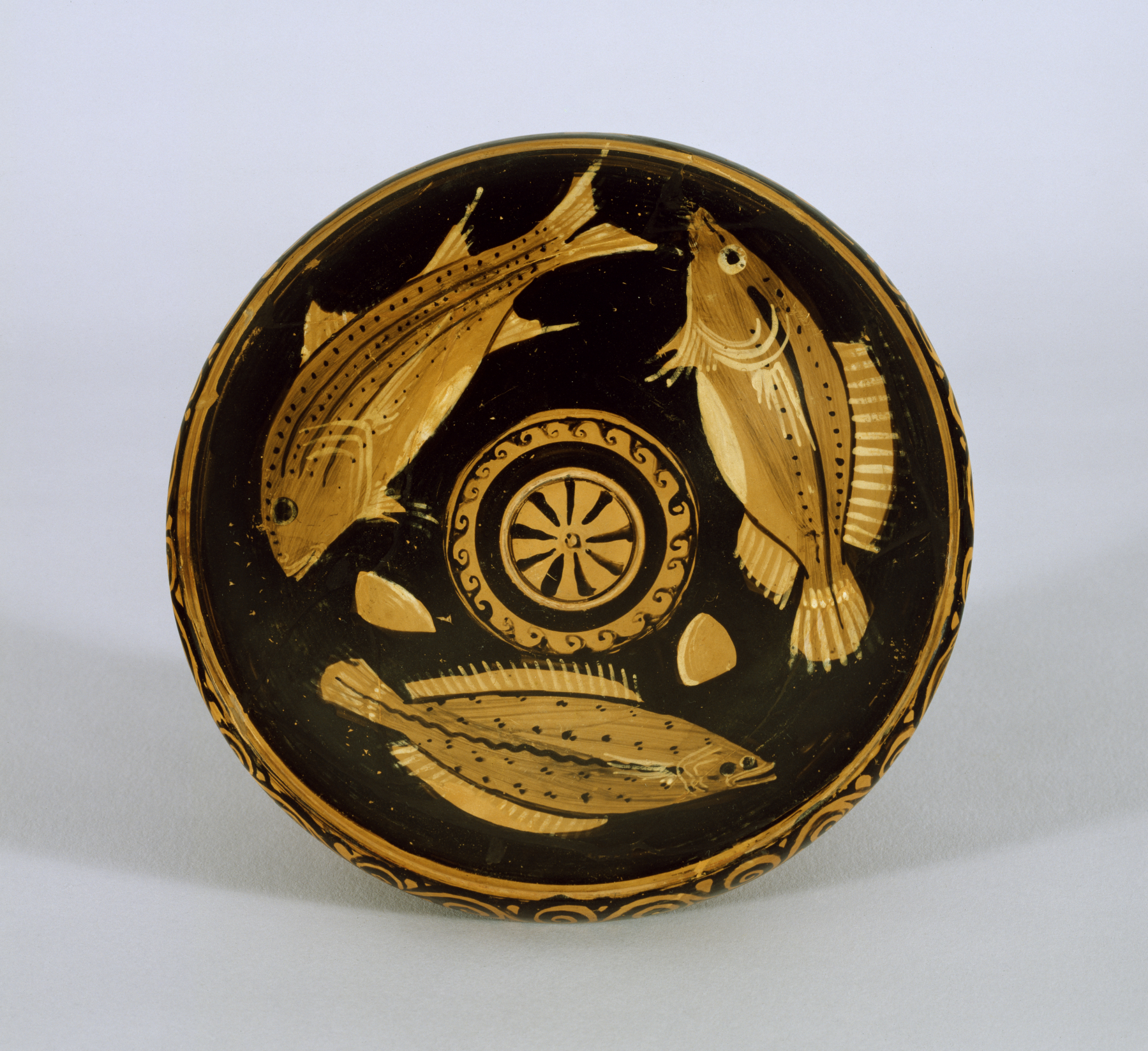 Fish plates first appeared in Athens during the 5th century and later became a typical product of South Italian workshops. While the fish on South Italian plates are normally oriented with their lower body towards the center, on Athenian examples, the bellies of the fish are turned towards the rim of the plate. These plates were used to serve fish, and the depression in the center would hold the sauce. Depicted here are a mullet, a flatfish, a wrasse, and two mussels.